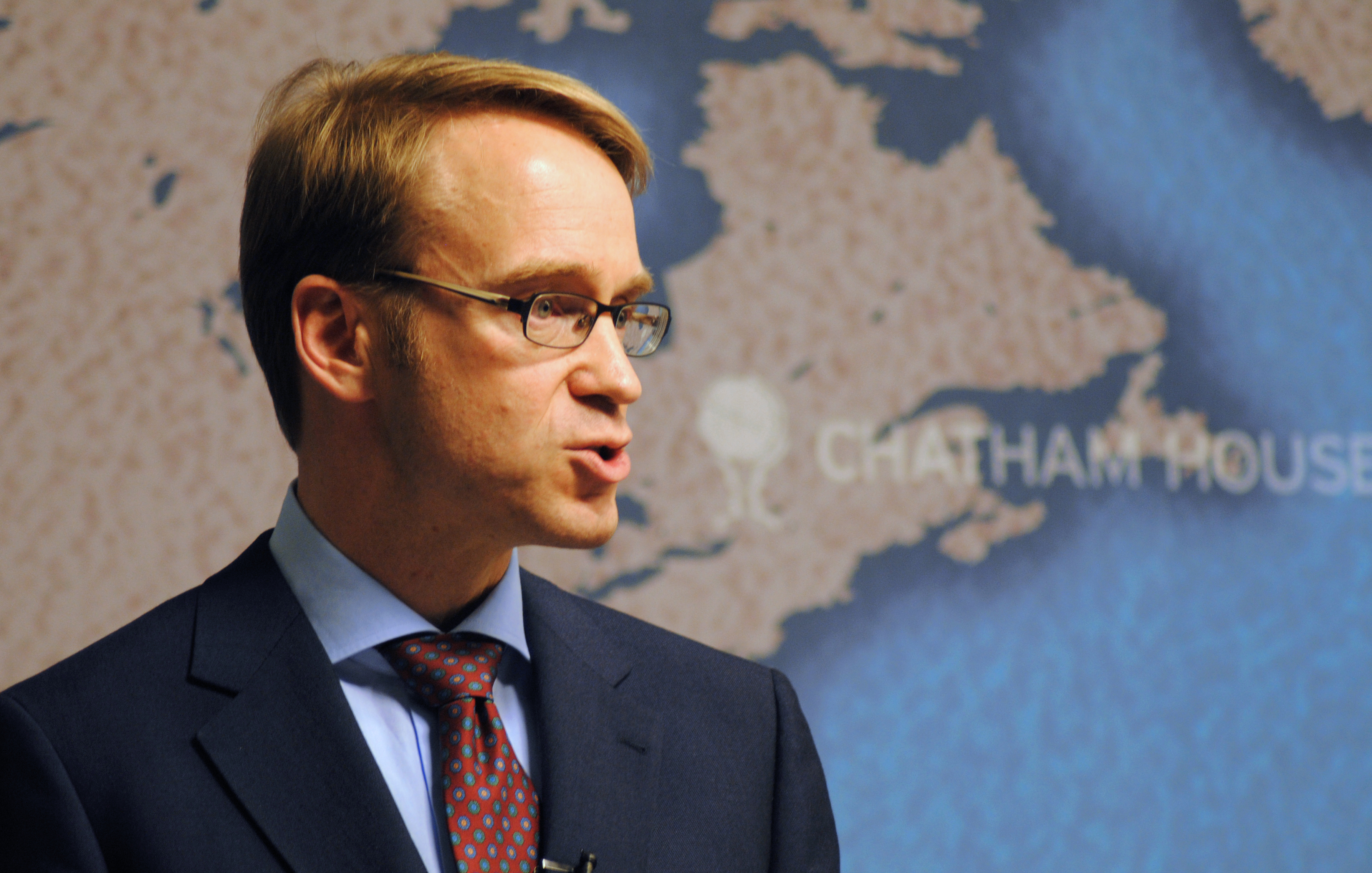 Rebalancing Europe, 28 March 2012